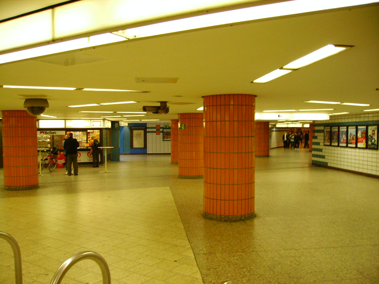 Entrance and connecting level of the Harburg Rathaus station in 2009.